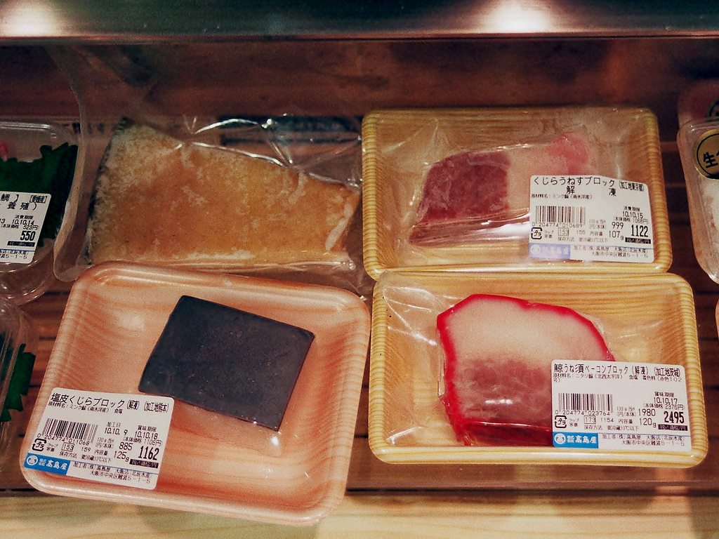 Various cuts of whale meat for sale at Takashemaya Department Store (Osaka, Japan).